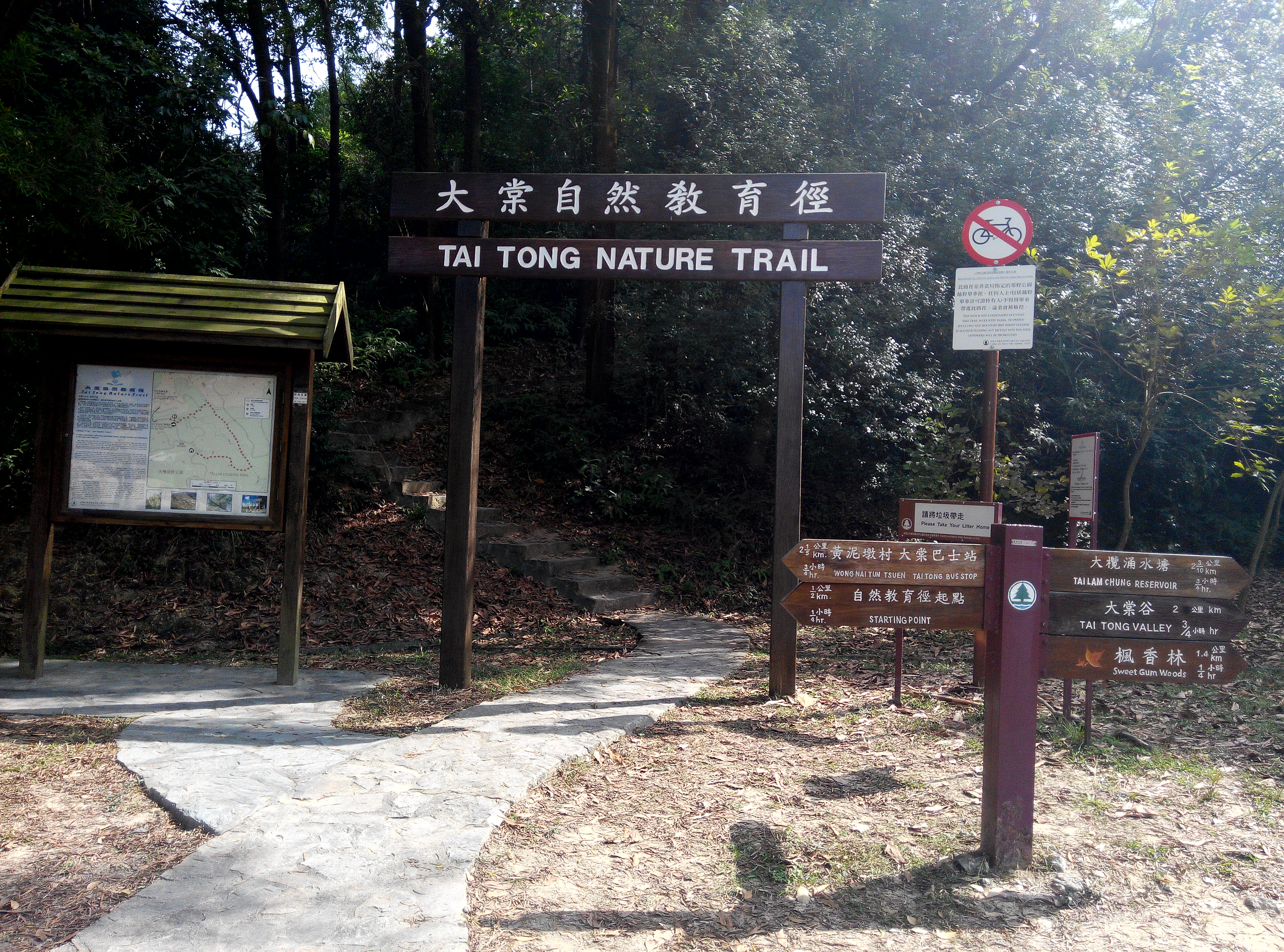 Tai Tong Nature Trail